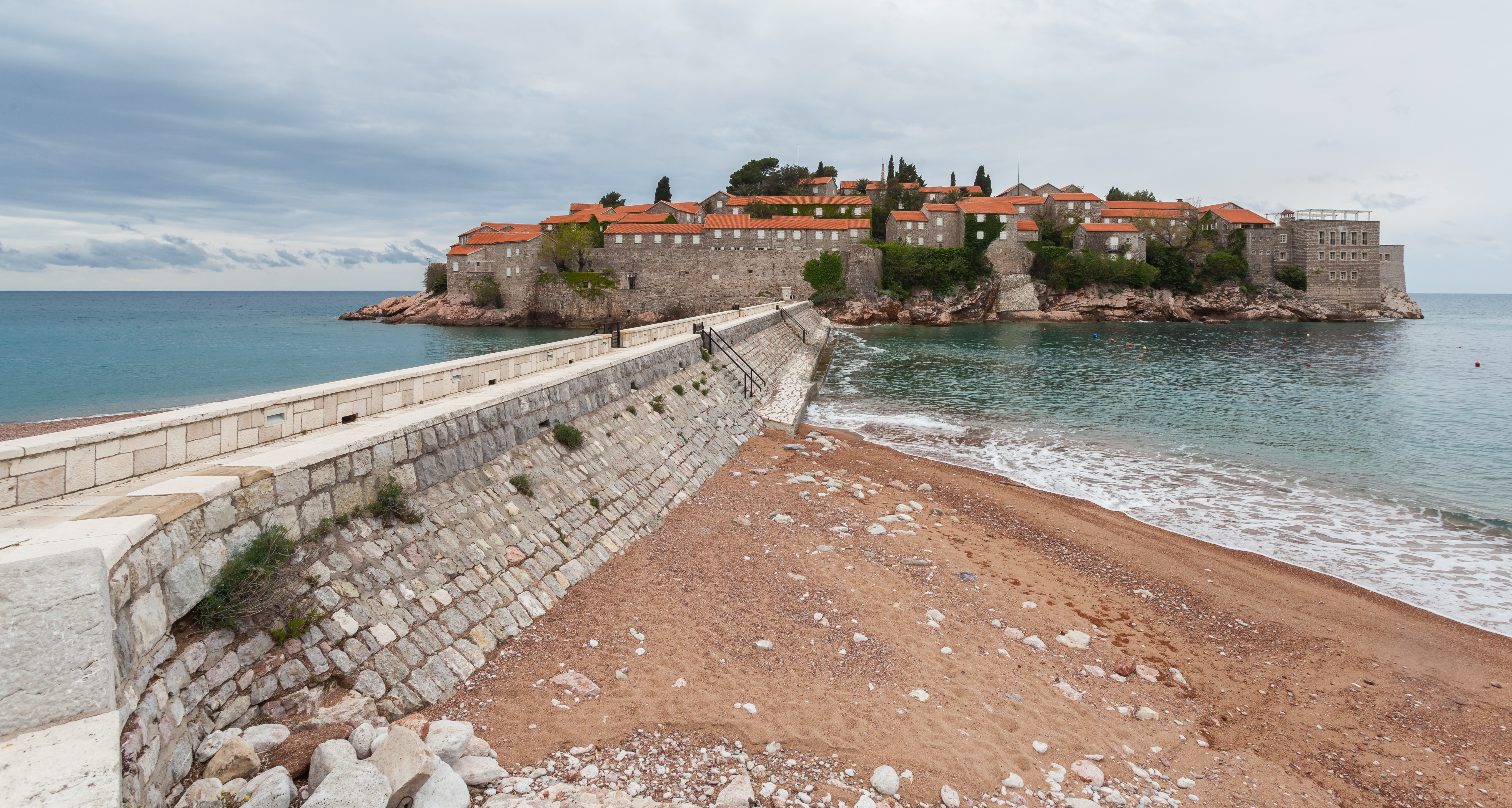 Sveti Stefan, Montenegro